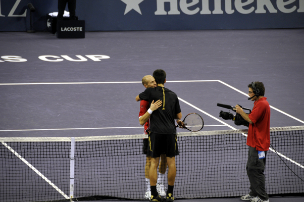 Novak Djokovic and Nikolay Davydenko during the 2008 Tennis Masters Cup final